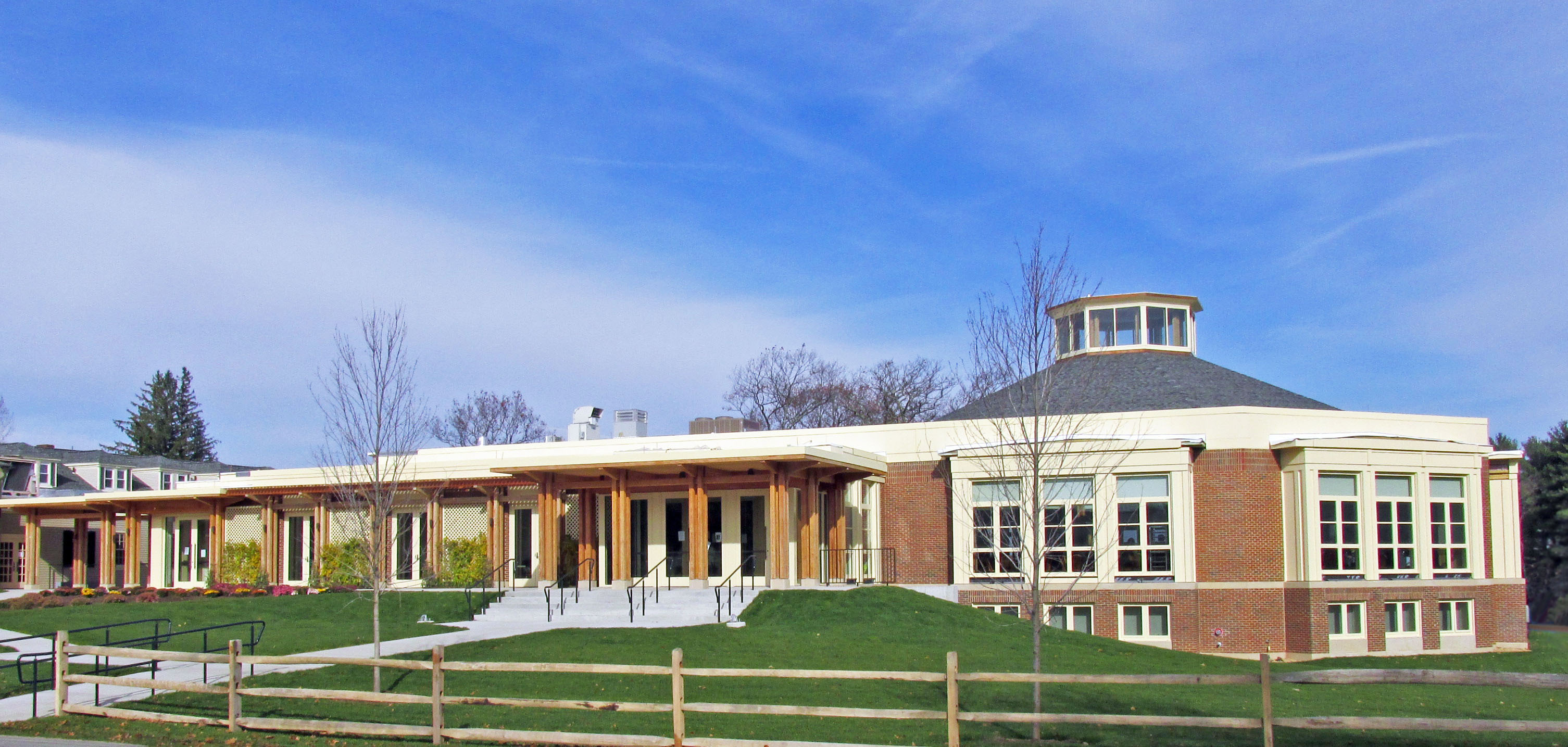 Faculty Hall academic and dining commons at The Winchendon School in Winchendon, MA